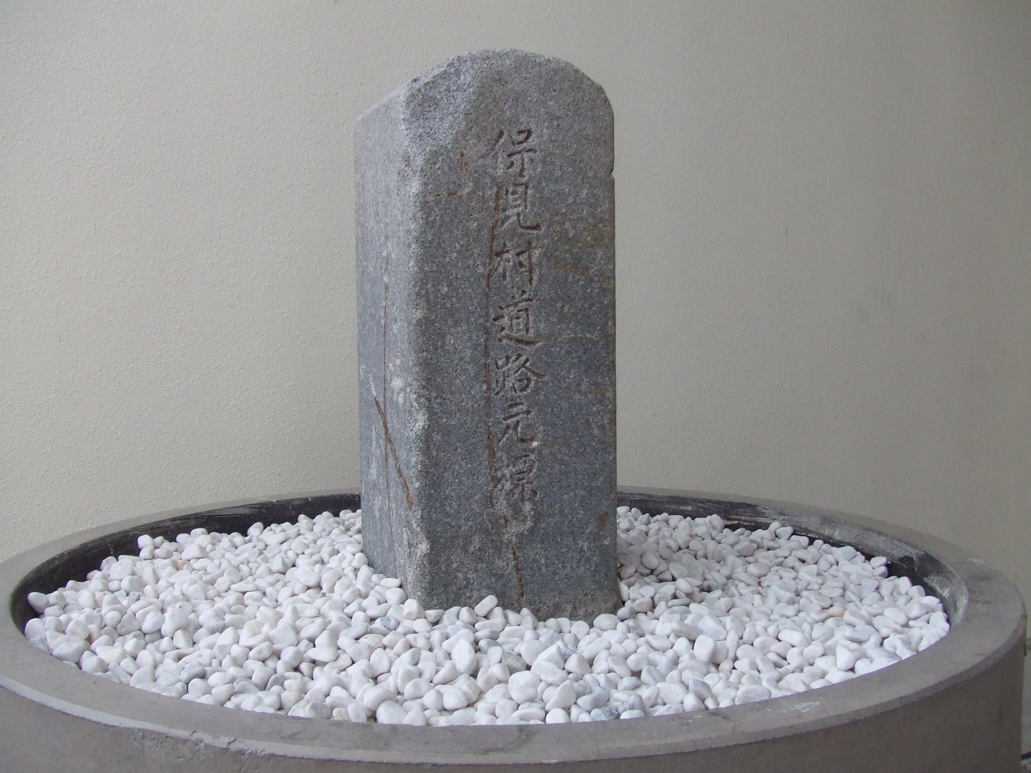 Kilometre zero of Homi village. (Homi village, Nishikamo-gun, Aichi.)